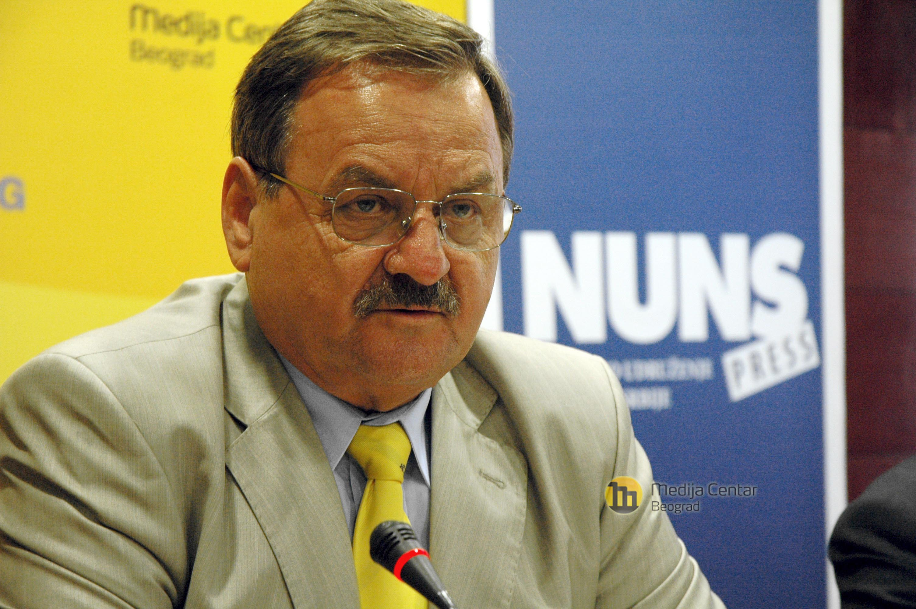 Miroslav Luci